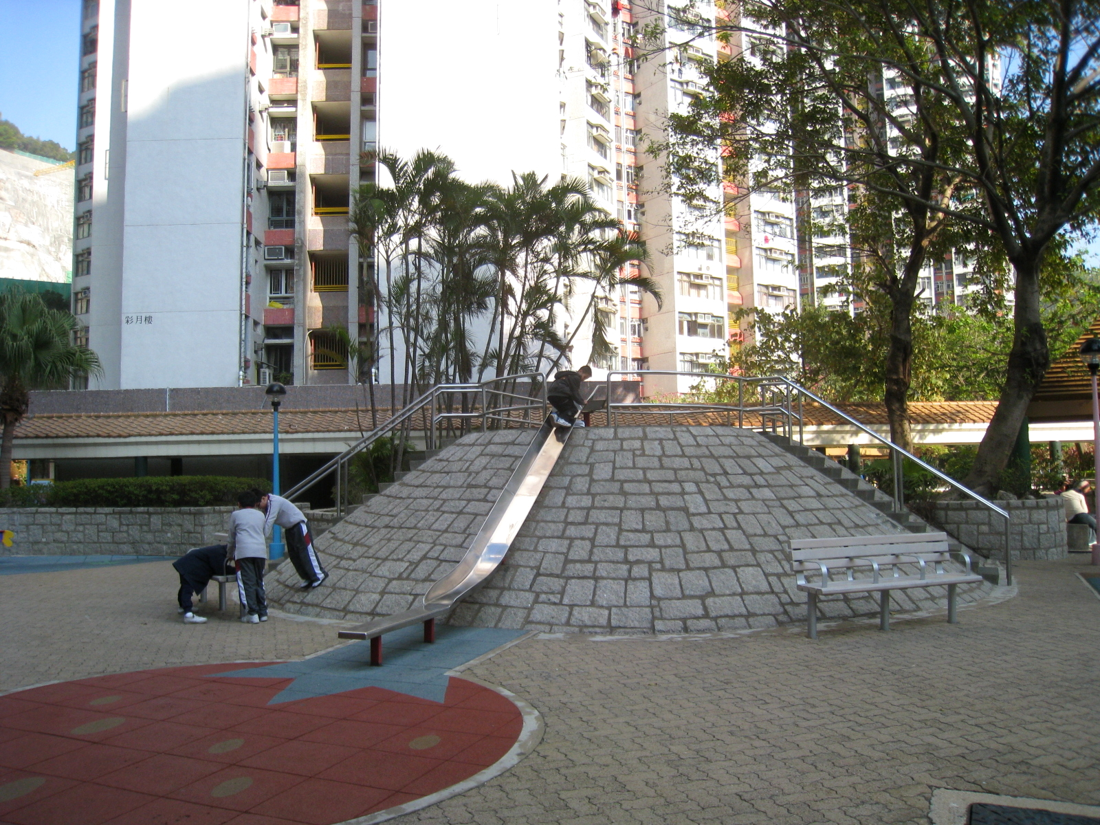 Children Playground Slide in Choi Ha Estate